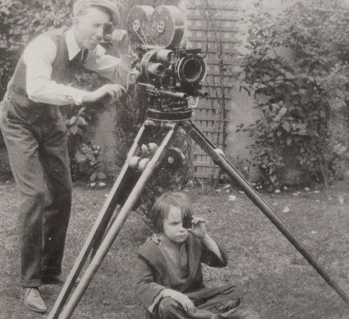 cinematographer Glen MacWilliams & Jackie Coogan on the set of Oliver Twist - publicity still